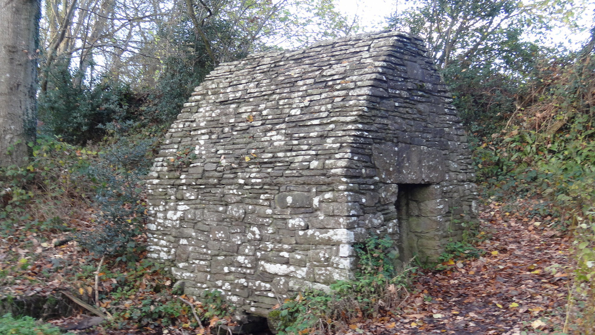 Maendu well or Eluned's well, Brecon, Wales